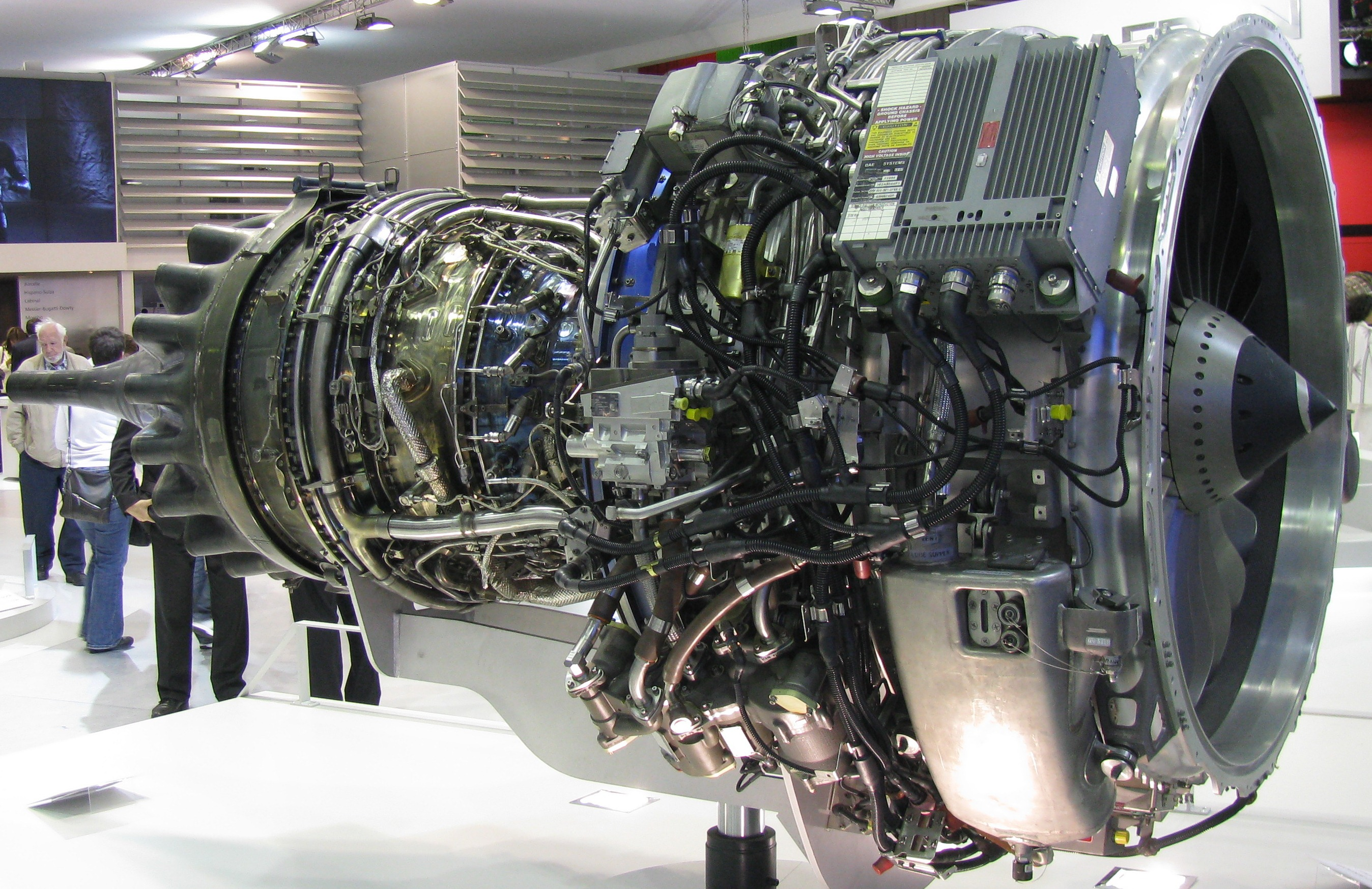 PowerJet SaM146 Engine exhibited in Paris Air Show 2011